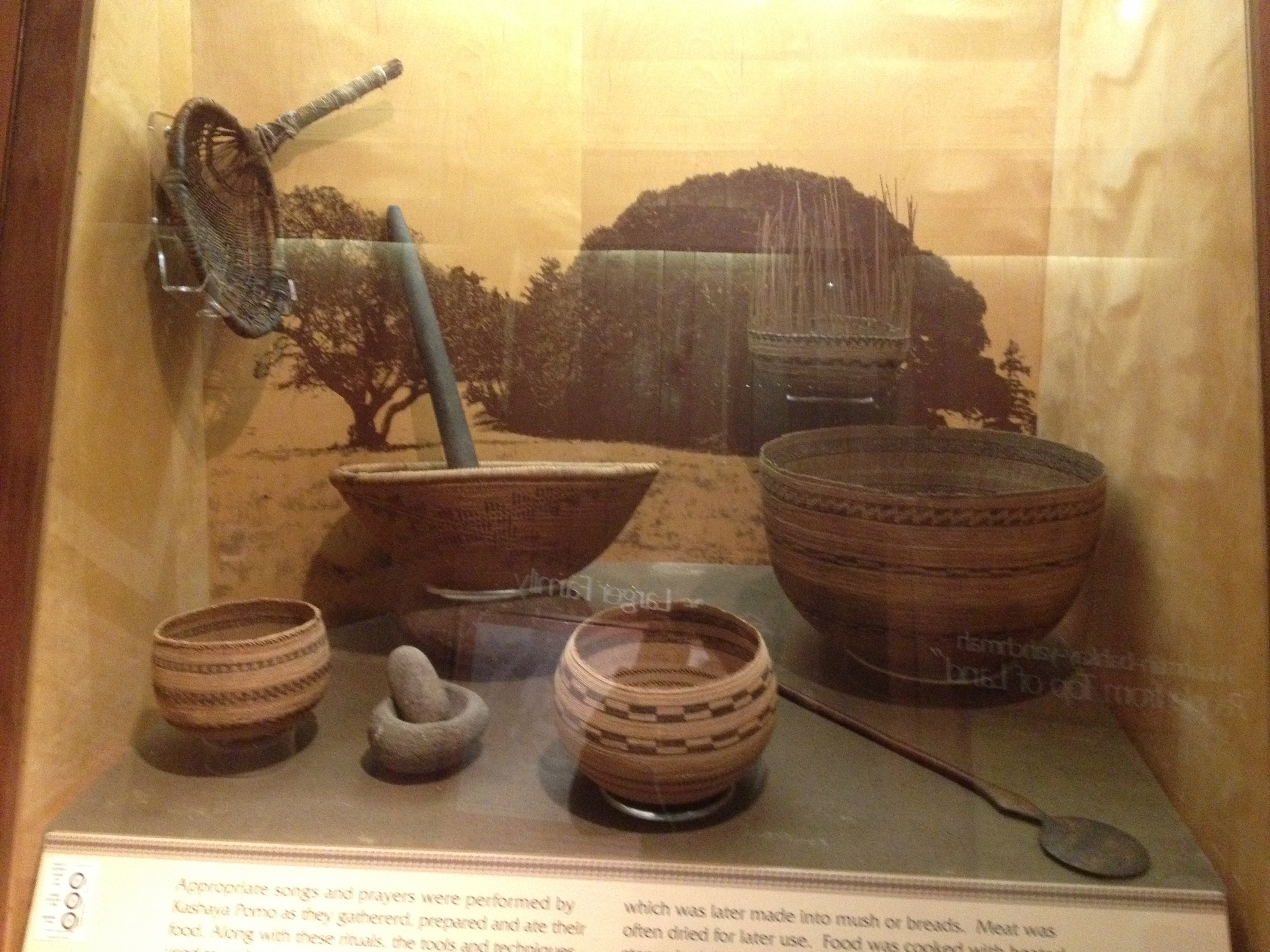 Pomo basketry display